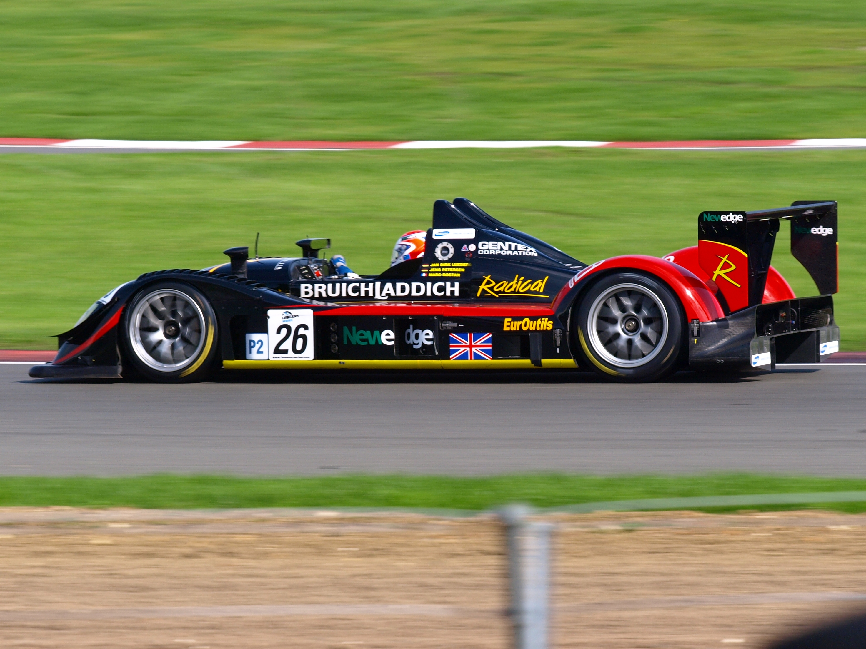 Team Bruichladdich Radical's Radical SR9-AER at the 2008 1000km of Silverstone.